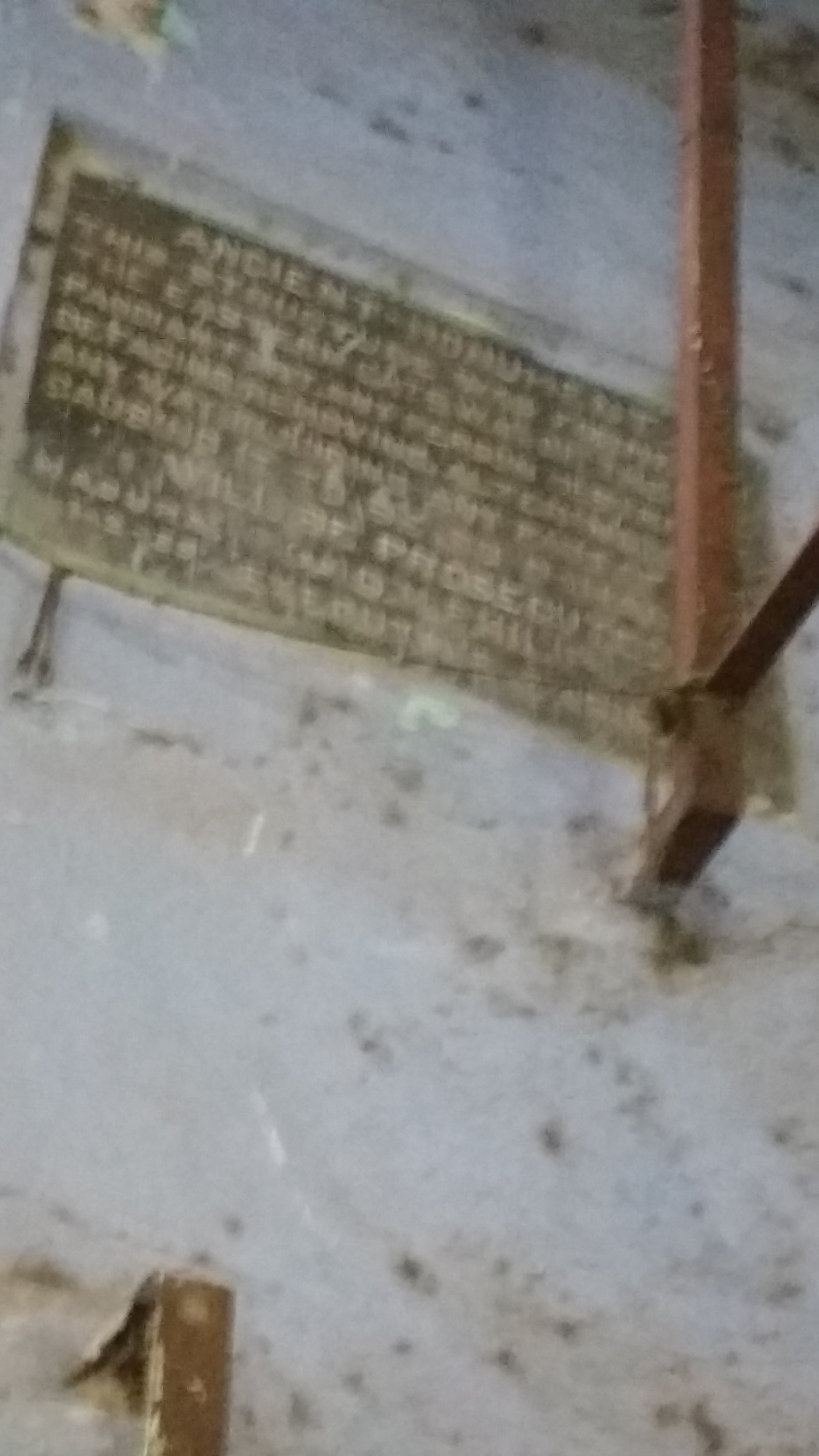 An Inscription in the Vitta Vasal Mandam, by the Madurai City development engineer G. F. Philip in1935 regarding the mandapam (Hall) should not be encouraged by anyone and kept it as monument of madurai city.